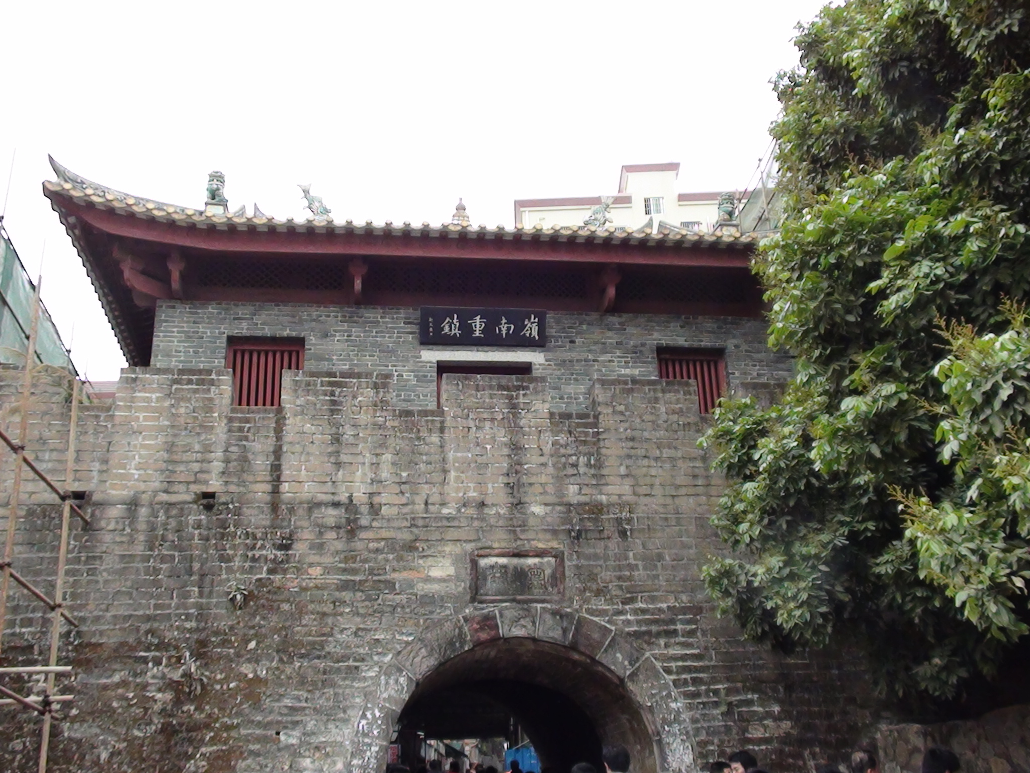 深圳南头古城